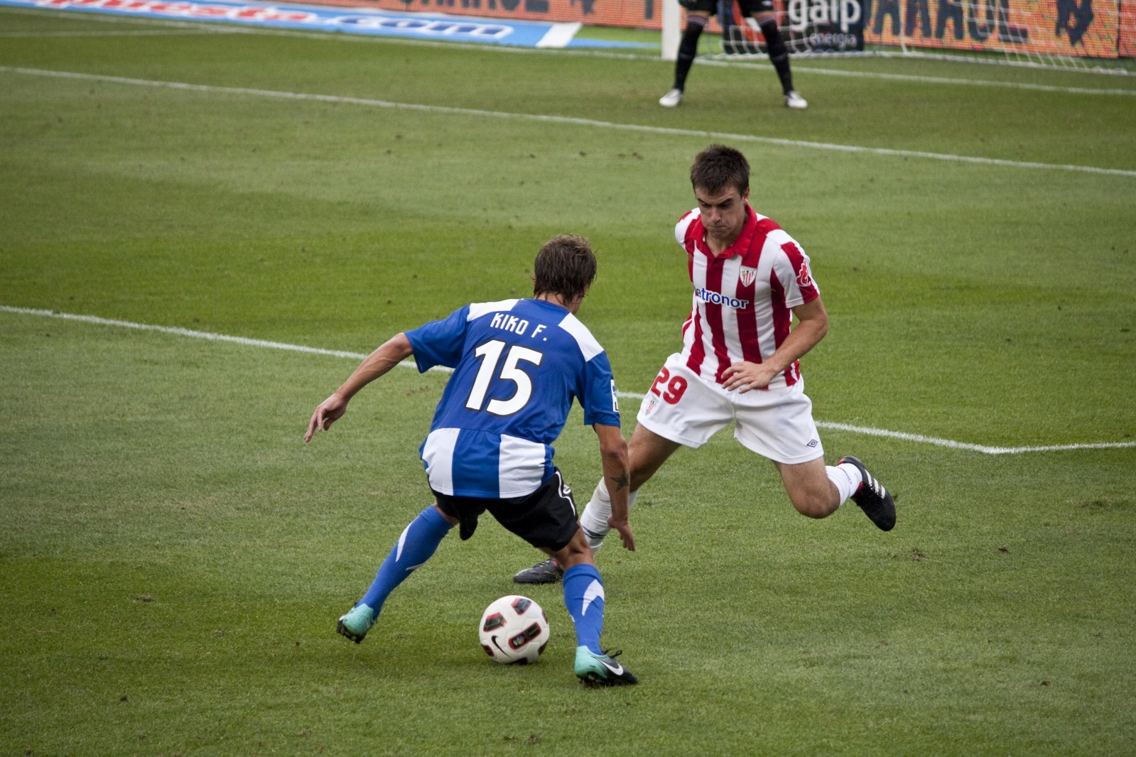 Kiko Femenia contrasts Jon Aurtenetxe in his debut in La Liga with Hércules's shirt during the match of the day one against Athletic Bilbao, played at the José Rico Pérez stadium.